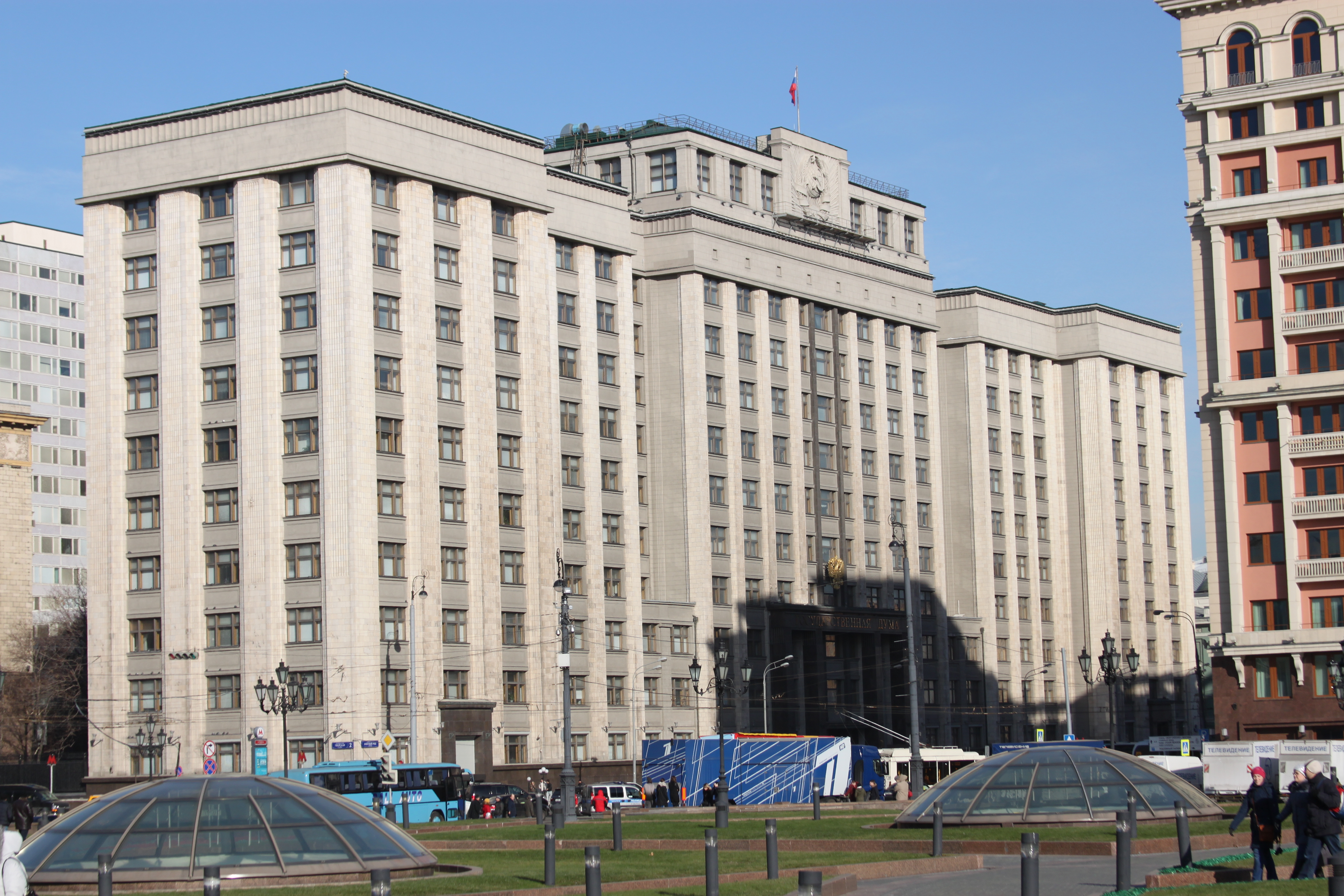 2014 Moscow State Duma